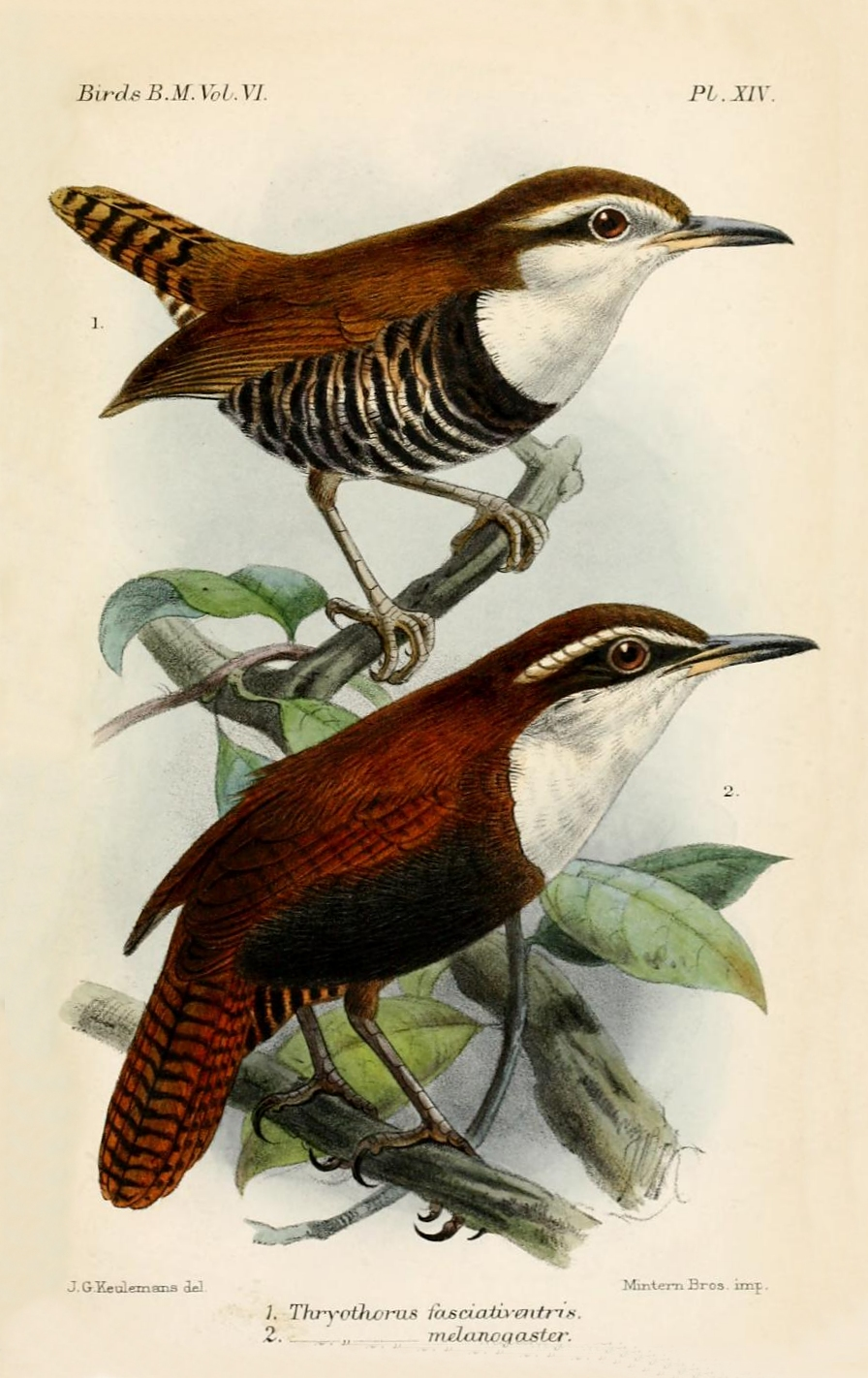 Black-bellied Wren